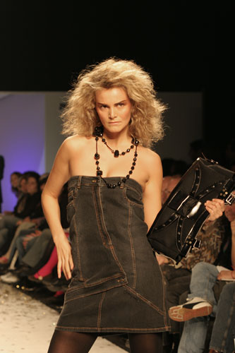 Eveline Pereira at the catwalk, dressed by Miguel Vieira, at Portugal Fashion 2005.